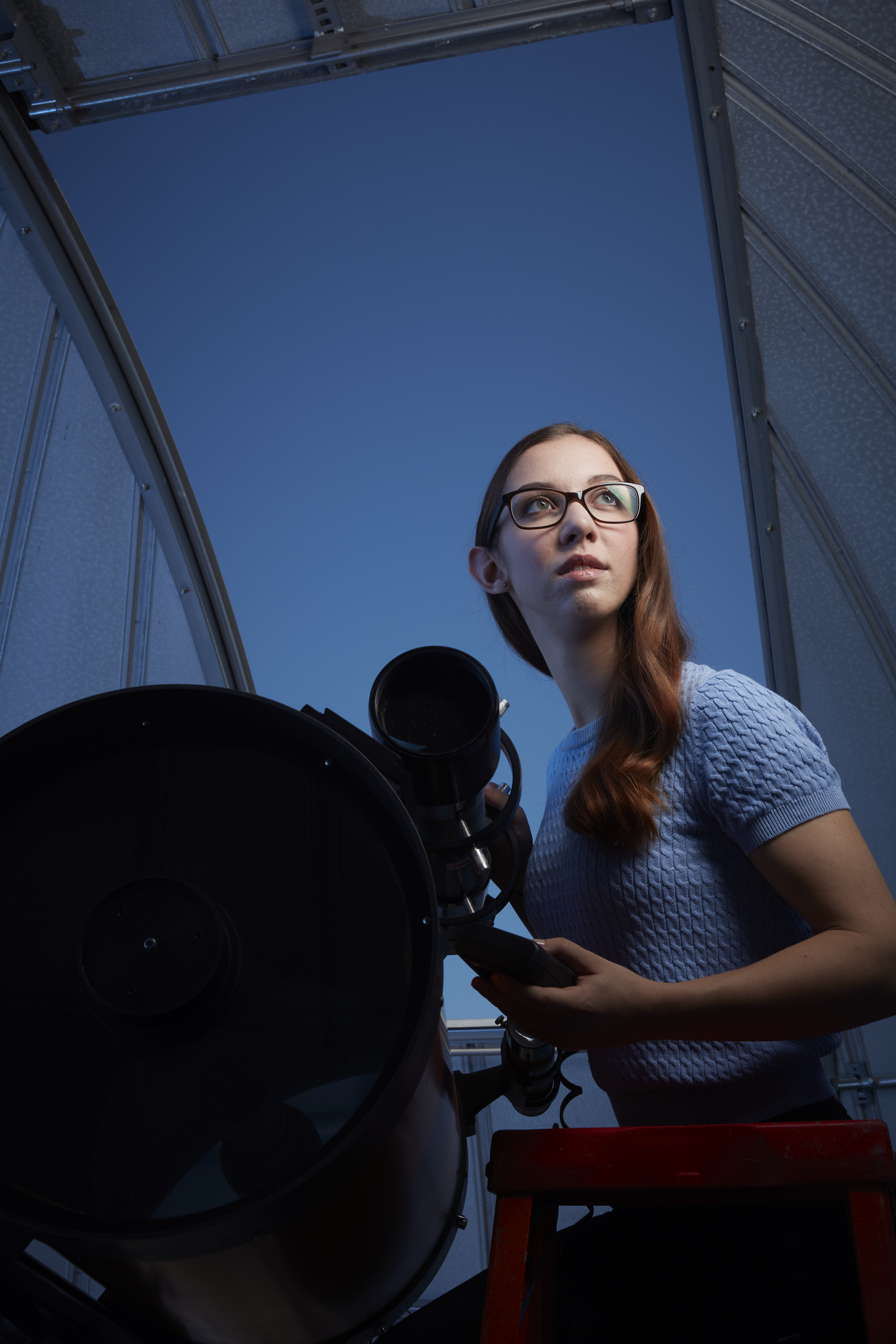 Image of Kirsten Banks gazing at the stars next to a telescope